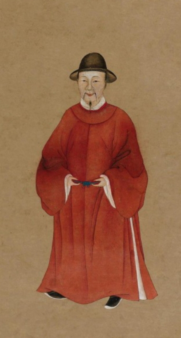 Tang Yin, famous painter, litterateur of the Ming Dynasty.